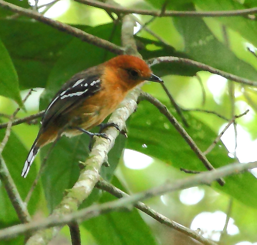 Amazonian Antshrike (female) at Apiacás - MT - Brazil